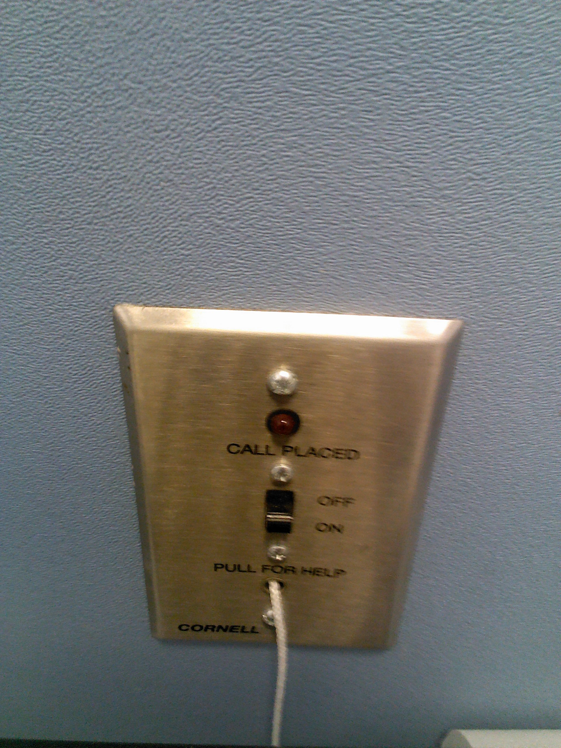 A pull string located in a bathroom at CentraState Medical Center in Freehold, New Jersey.